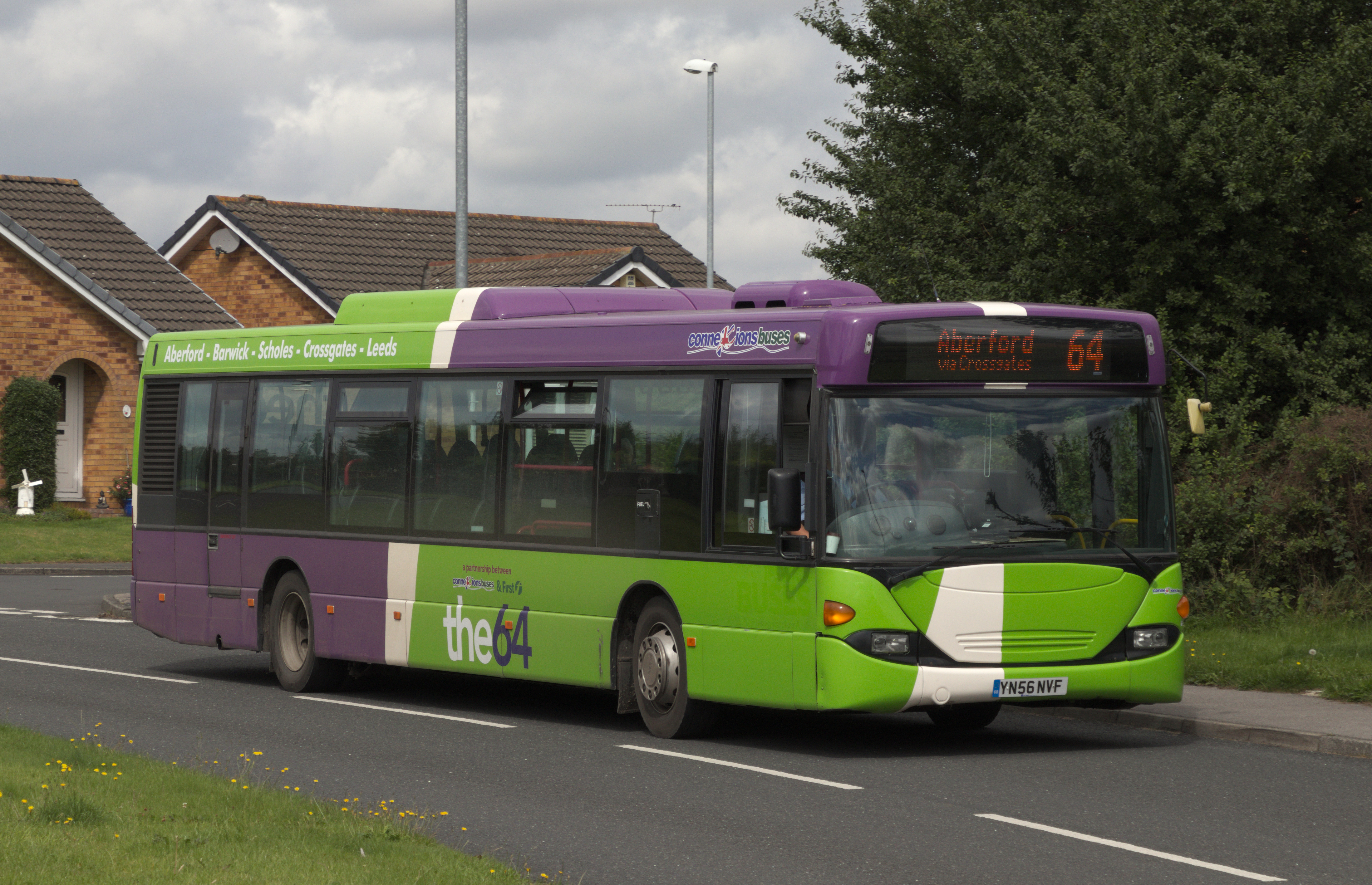 Connexion's YN56 NVF, a Scania Omnicity, new to Ipswich.